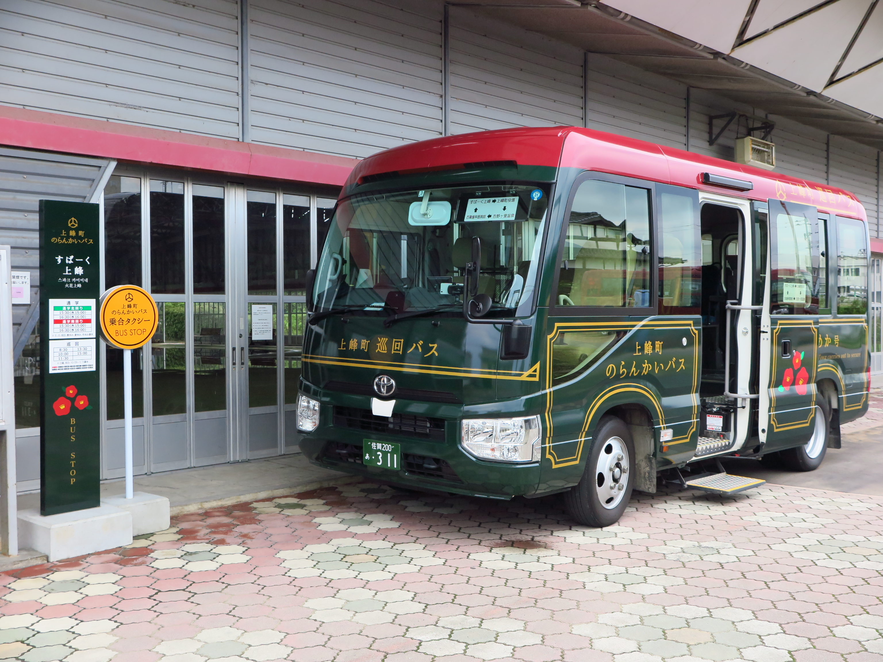 Aug 30 2019 at 'Spark Kamimine'